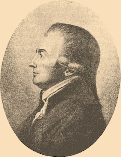 Illustration from Brockhaus and Efron Jewish Encyclopedia (1906—1913)